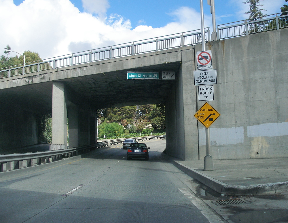 The underpass for the Oregon Expressway (County Route G3), passing under the Caltrain tracks in Palo Alto, California.